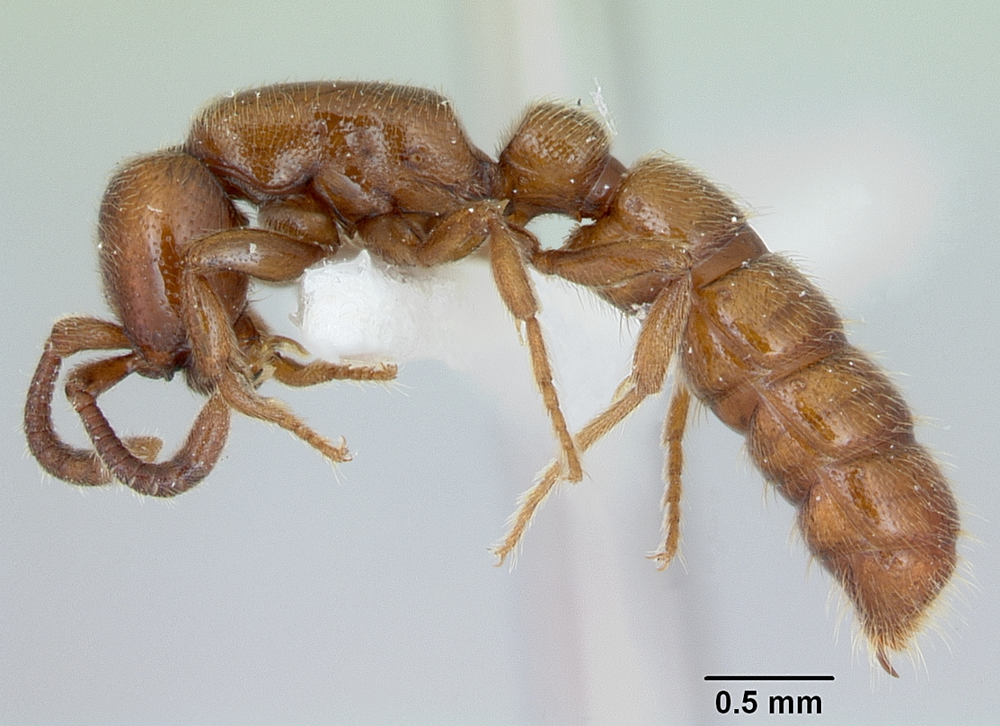 Profile view of ant Sphinctomyrmex imbecilis specimen casent0173058.